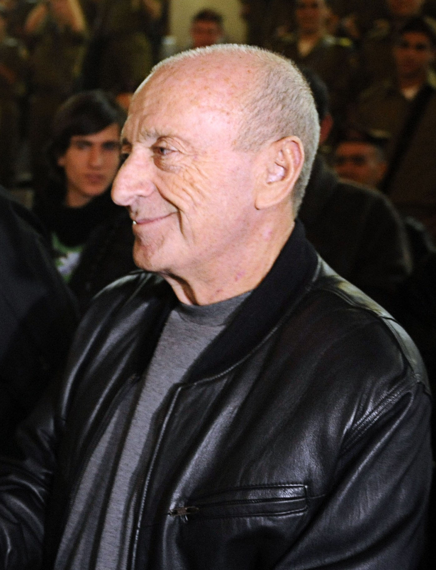 Former Commander of the Israeli Military Intelligence Directorate Uri Sagi